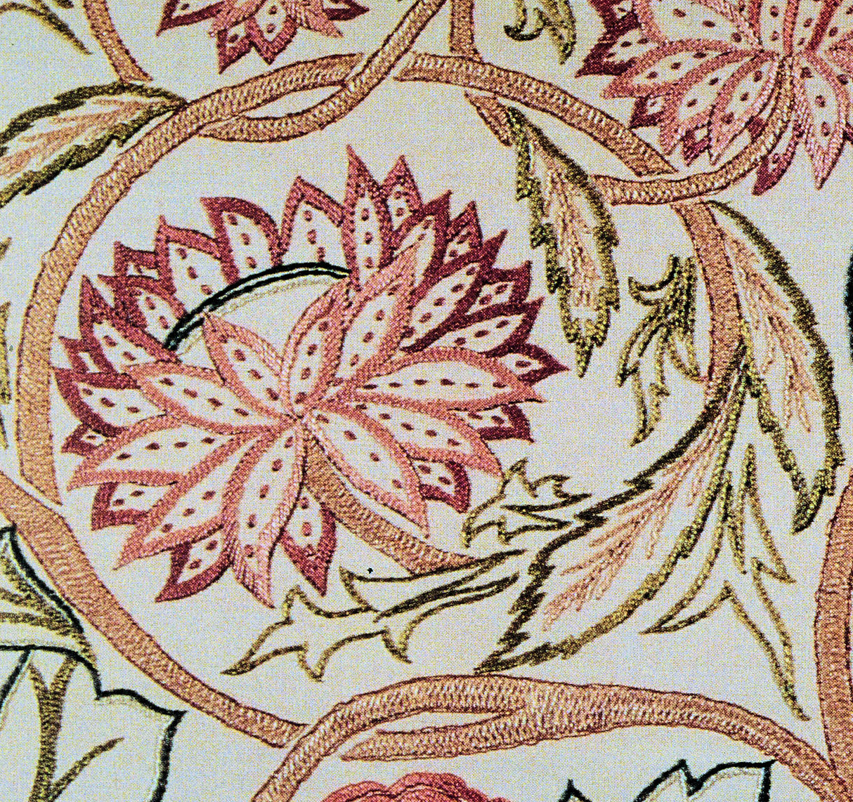 Detail of Art Needlework embroidery "Flowerpot" in silk on linen, designed by William Morris c. 1878 and available as a design for a cushion or firescreen from Morris and Company. (See Linda Parry, William Morris Textiles, New York, Viking Press, 1983, p. 28.)